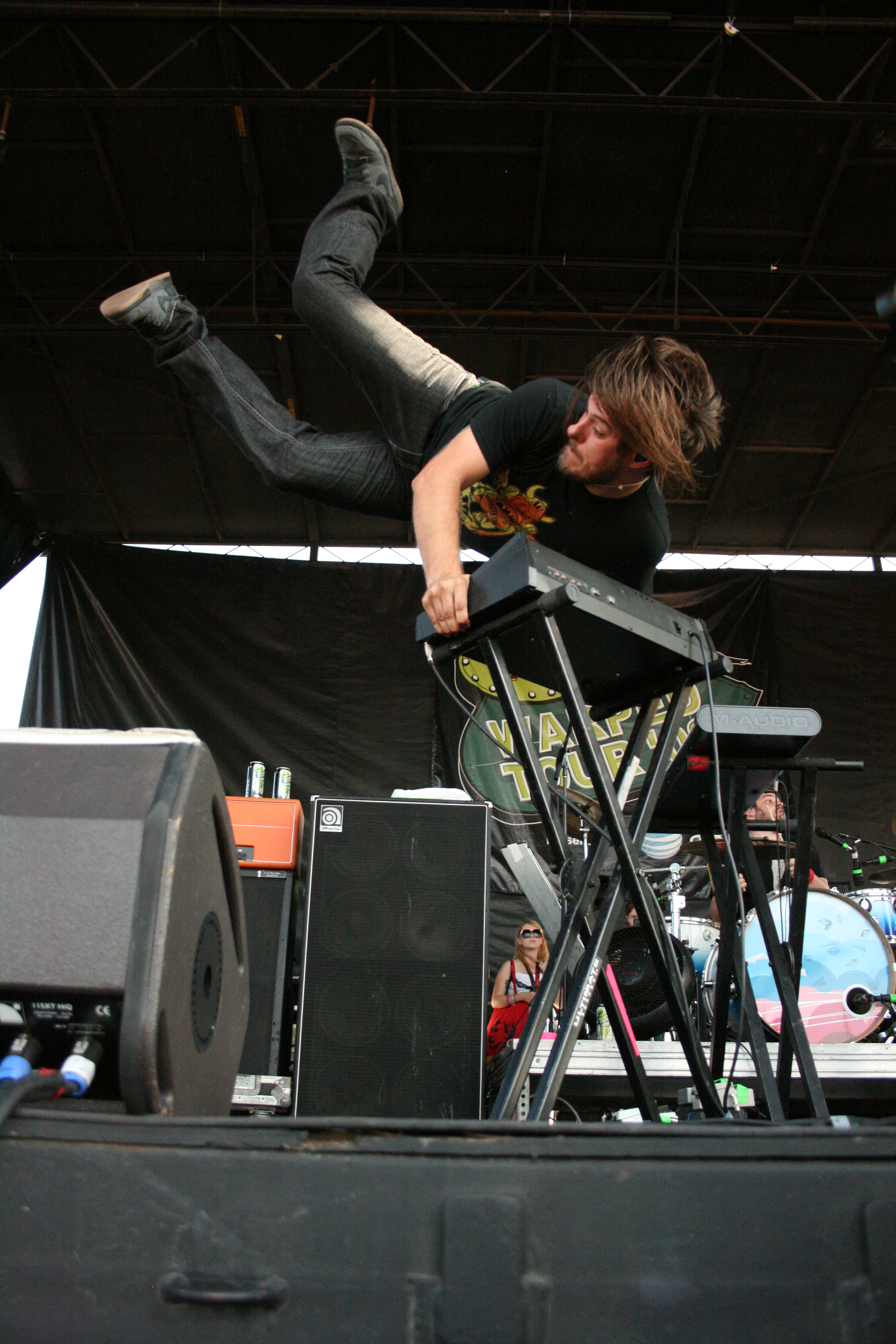 Jesse Johnson, keyboardist for rock group Motion City Soundtrack, performs a "Moogstand" -- a handstand on his Moog synthesizer -- on August 14, 2008.